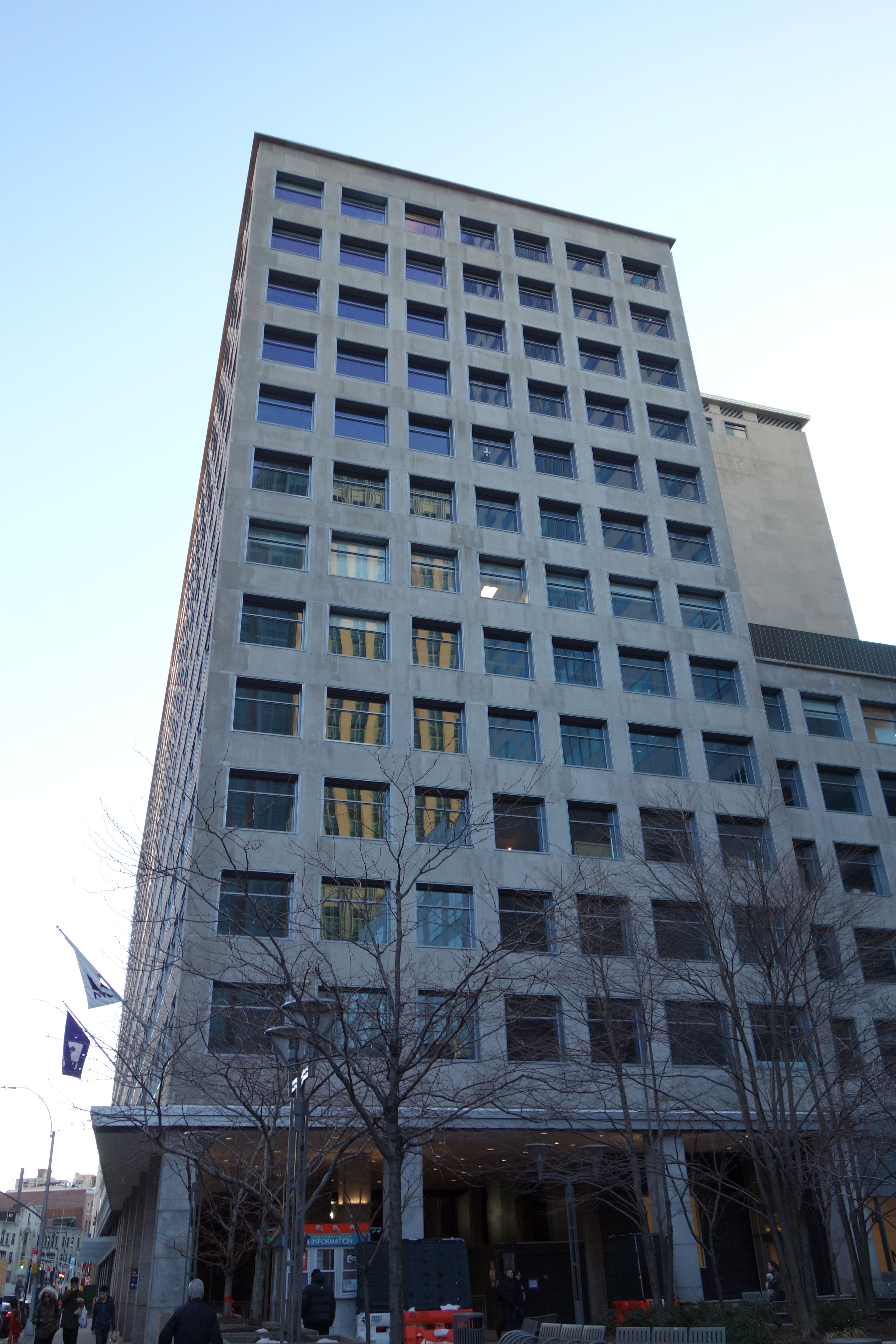 The rear face of 370 Jay Street, at Jay Street and Myrtle Avenue in MetroTech, Downtown Brooklyn.